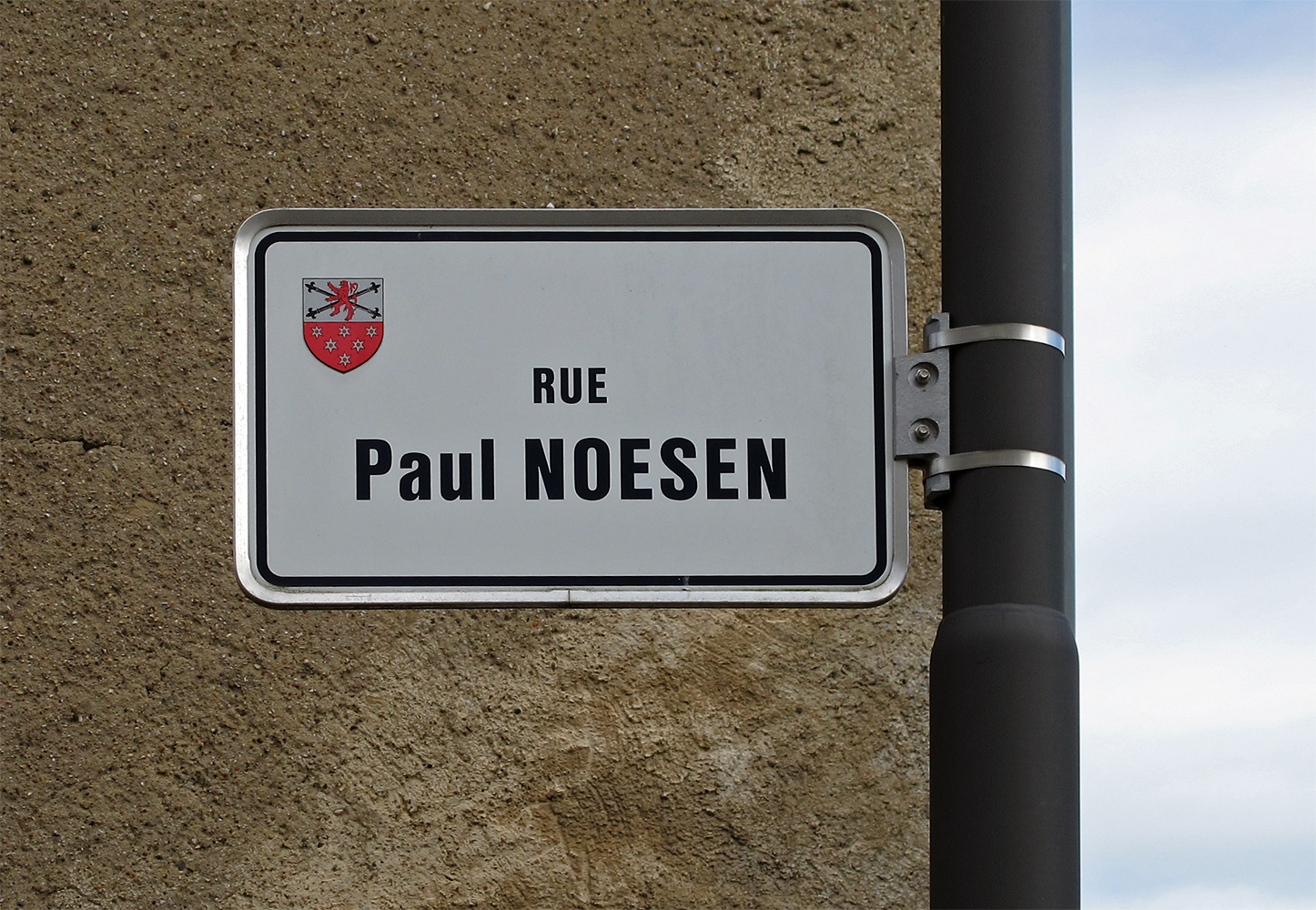 Street sign of the rue Paul Noesen in Erpeldange (Bous), Luxembourg